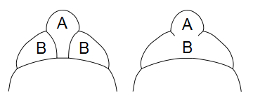 Lumbricidae (Earthworms). Prostomium and first segment from an epilobe and a tanylobe species